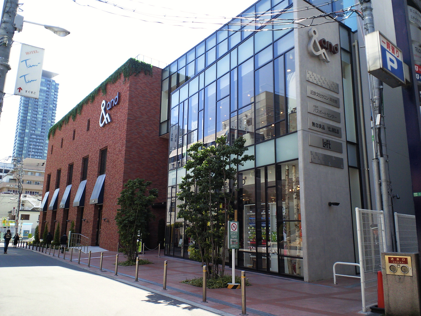 "Abeno and" in Osaka, Japan